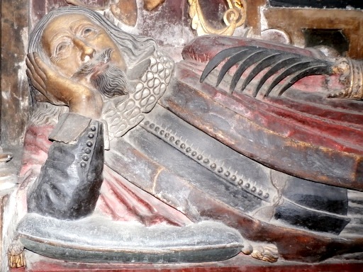 Detail of effigy in St Peter's Church, Barnstaple, Devon, of Richard Ferris (1582–1649) a wealthy merchant from Barnstaple who served as a Member of Parliament for Barnstaple in 1640 and served twice as Mayor of Barnstaple in 1632 and 1646. He was a member of the Spanish Company and founded the Barnstaple Grammar School, otherwise known as the "Blue School".